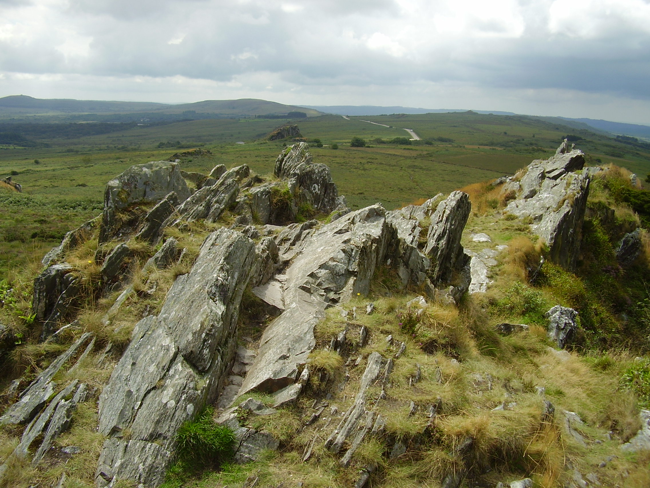 outcropping s, Plounéour-Ménez, Roc'h Trevezel, Bretany ; France